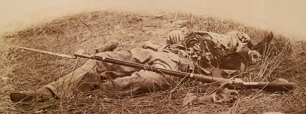 A Union soldier killed by a shell in "the Wheatfield" at Gettysburg, July 3, 1863. His arm is torn off and the shell completely disemboweled him.